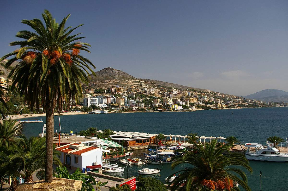 Saranda bay and touristic fishing port